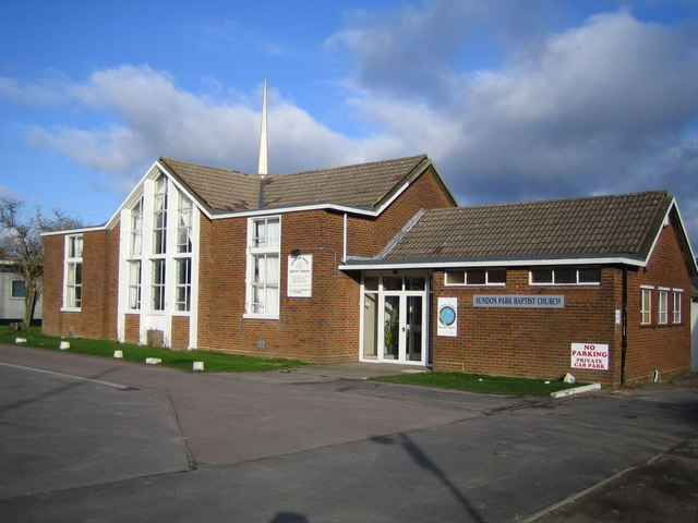 Luton: Sundon Park Baptist Church The Church is at 244 Sundon Park Road, and has a website here